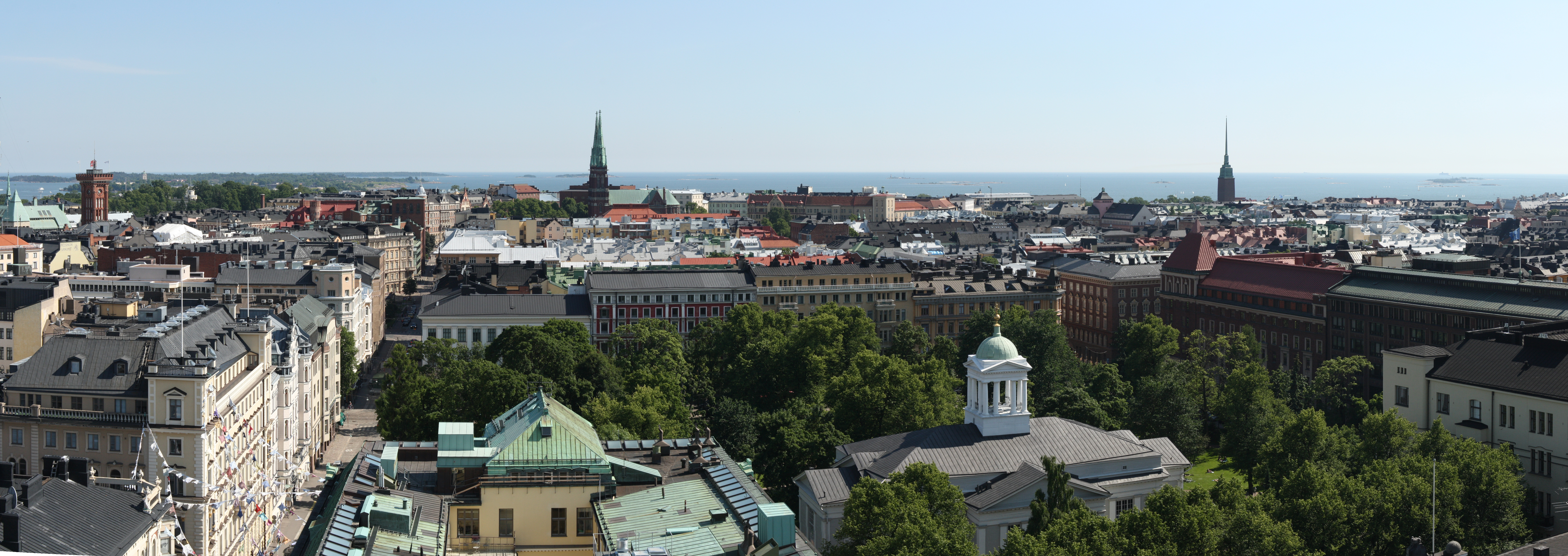 A panoramic view over the southernmost districts of Helsinki from Hotel Torni. The Helsinki Old Church and its surrounding park are seen in the foreground, while the towers of St. John's Church (left of center) and Mikael Agricola Church (right) can be seen in the middle distance, backdropped by the Gulf of Finland.